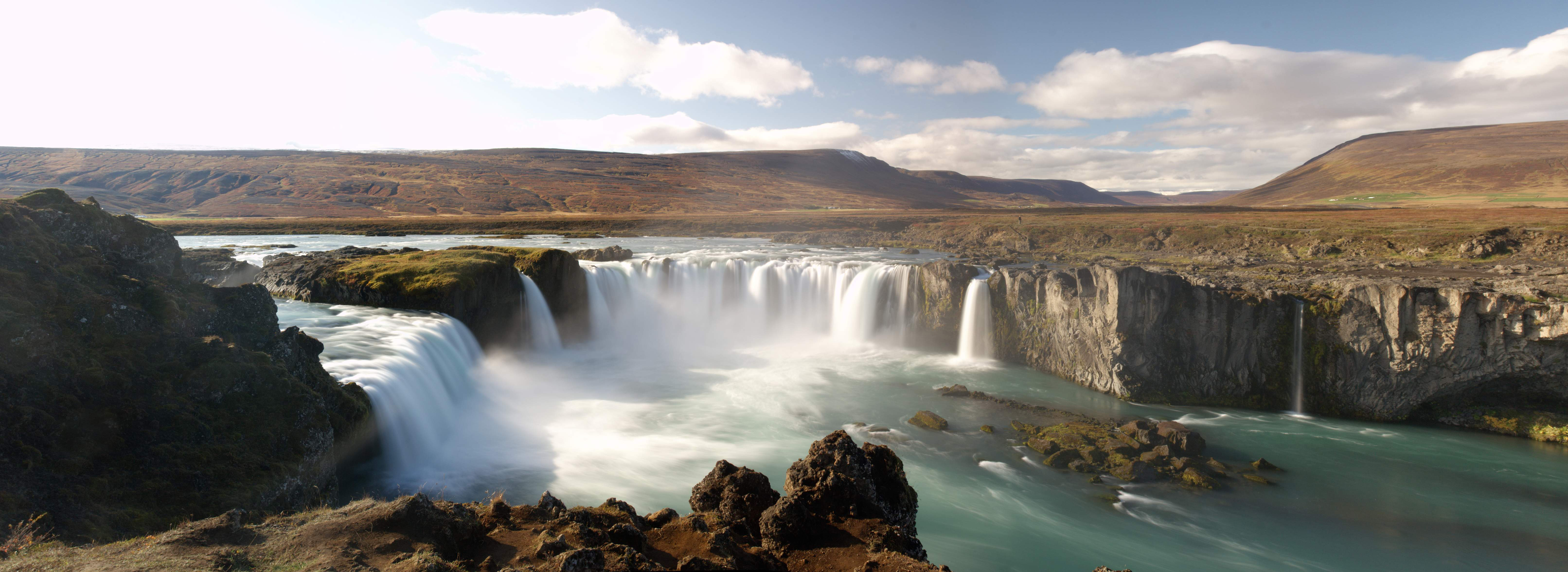 The waterfall Gothafoss (Goðafoss) in Iceland.